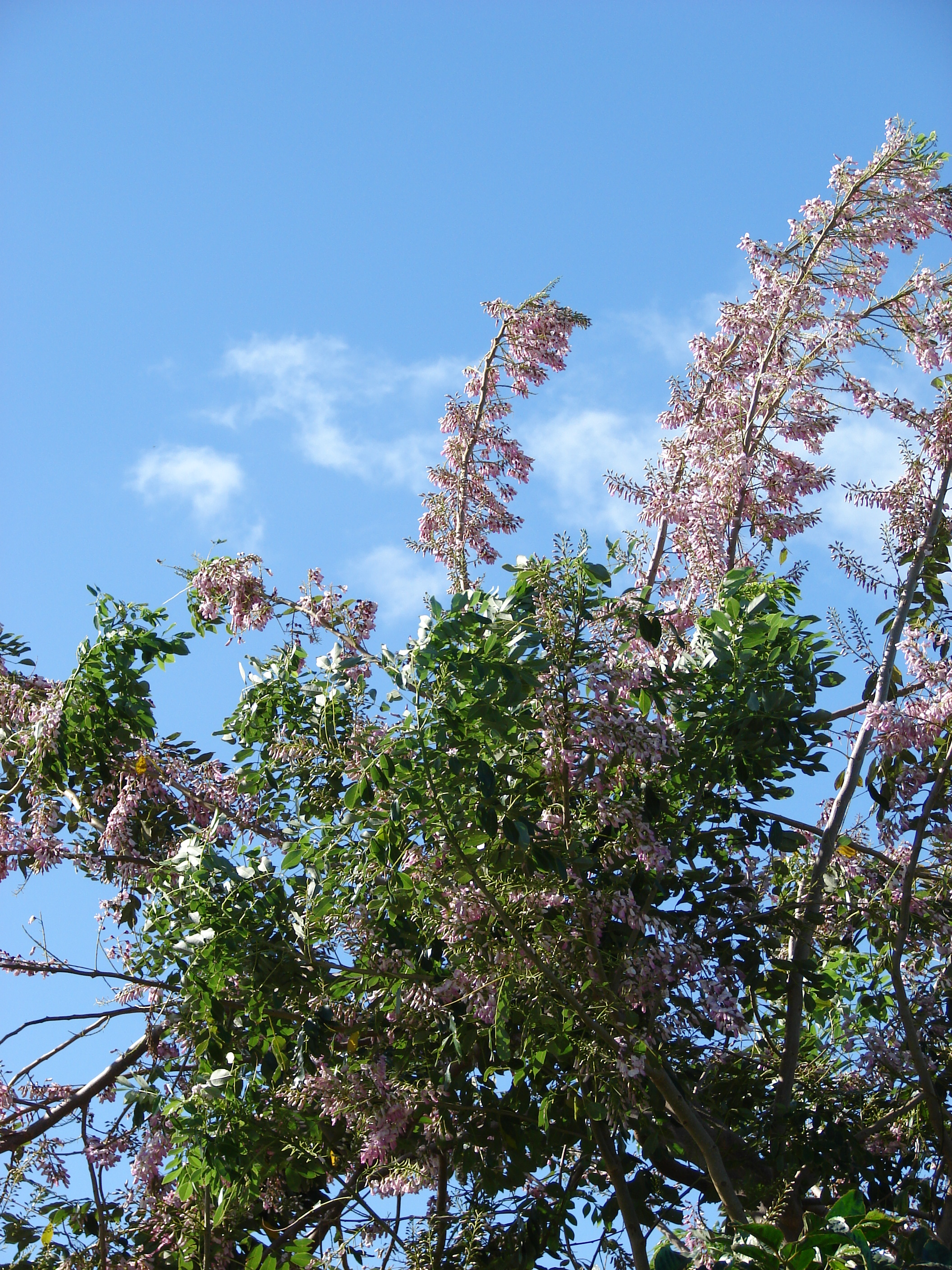 Gliricidia sepium (flowering habit). Location: Maui, Spreckelsville